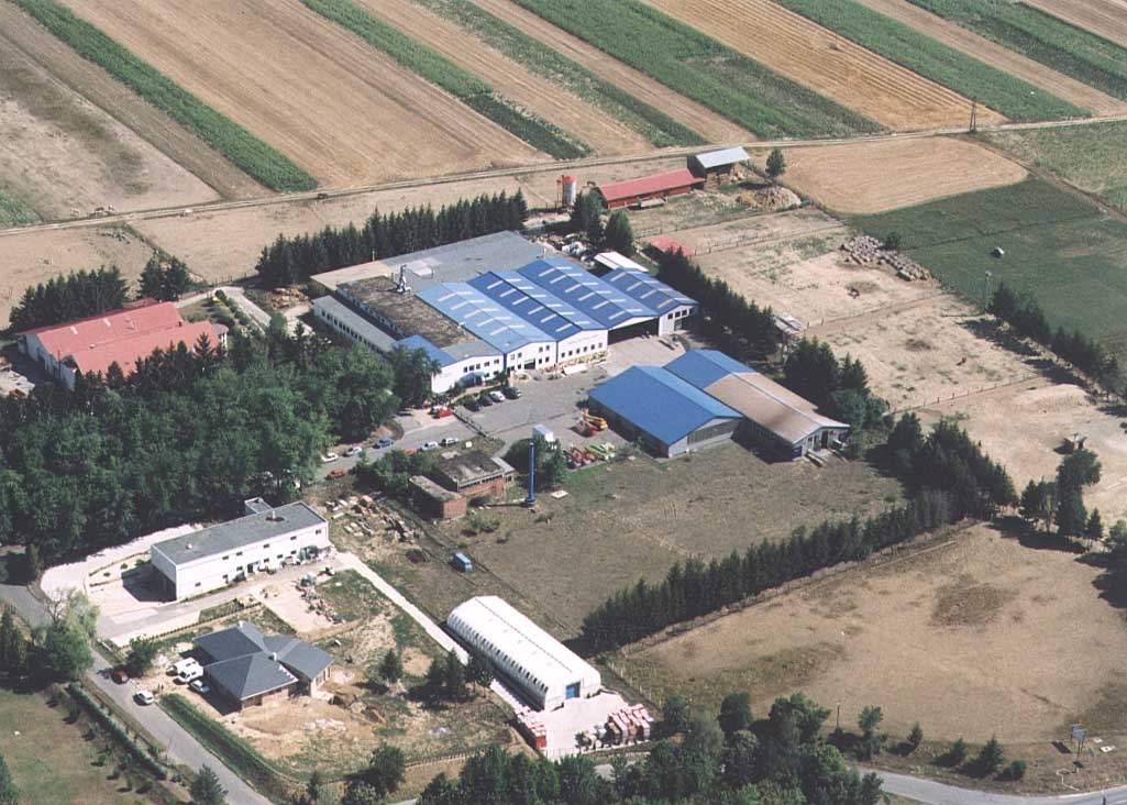 bagod, Hungary, aerial photography